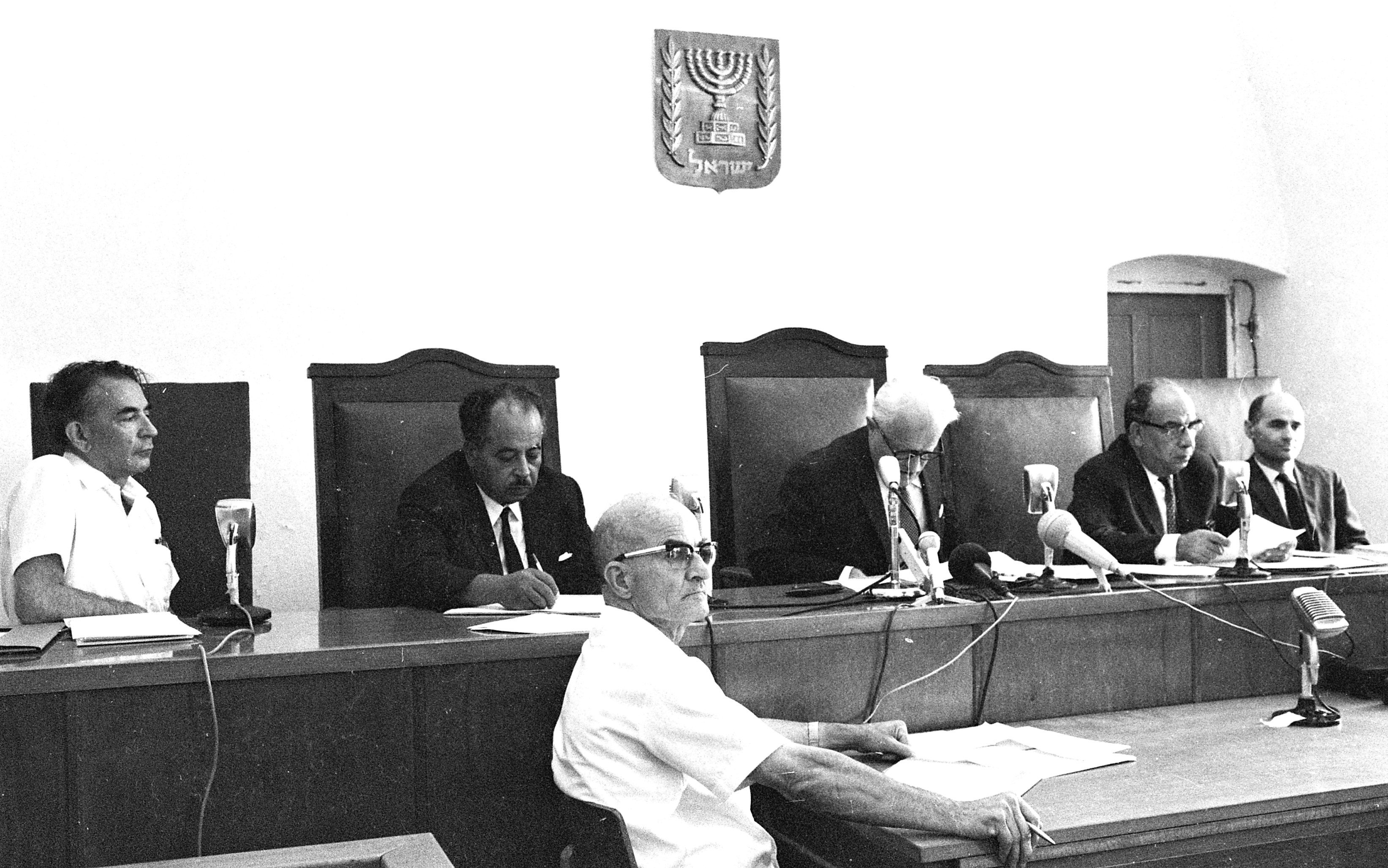 Commission of Inquiry into the Circumstances of the Fire at the Aqsa Mosque.